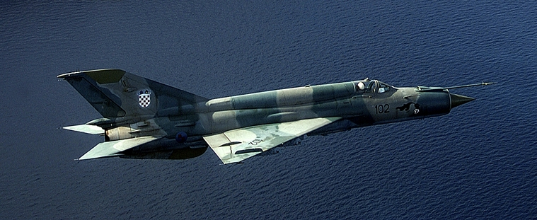 An F-14B "Tomcat" assigned to the "Jolly Rogers" of Fighter Squadron One Zero Three (VF-103) flies in formation with a pair of MiG-21’s assigned to the Croat Air Force. VF-103 is part of a detachment from Carrier Air Wing Seventeen (CVW-17) embarked aboard USS George Washington (CVN 73) participating with the Croat Air Force in Joint Wings 2002. Joint Wings is a multinational exercise between the U.S. and the Croat Air Force designed to practice intelligence gathering. George Washington is homeported in Norfolk, Va., and is nearing the end of a scheduled six month deployment after completing combat missions in support of Operations Enduring Freedom and Southern Watch.